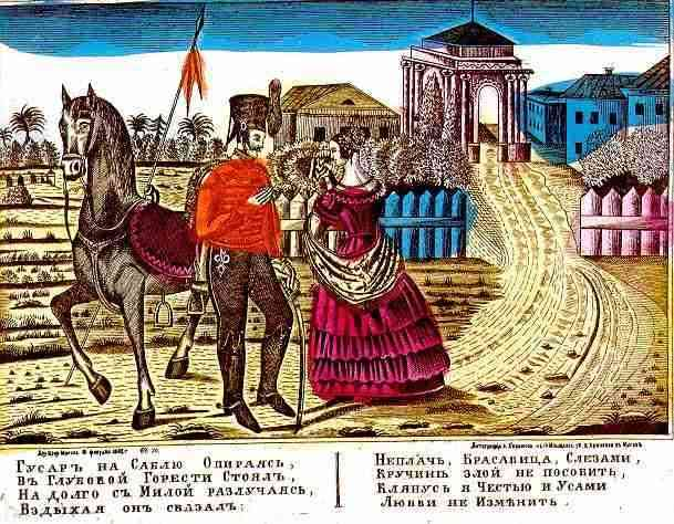 A Hussar, on his sabre leaning. Russian lubok.